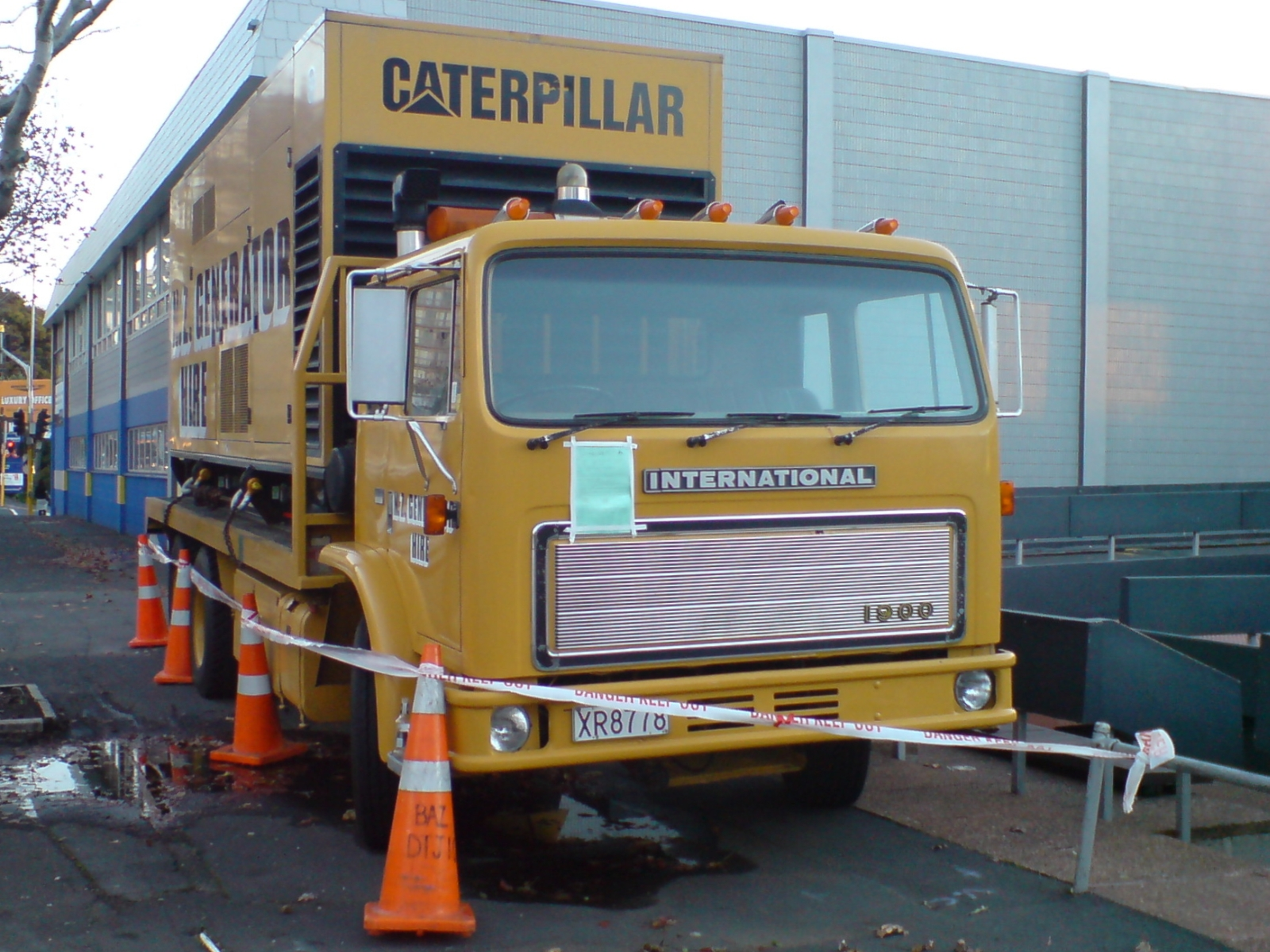 An old truck with an electric generator on Nelson Street in the Auckland CBD, New Zealand.